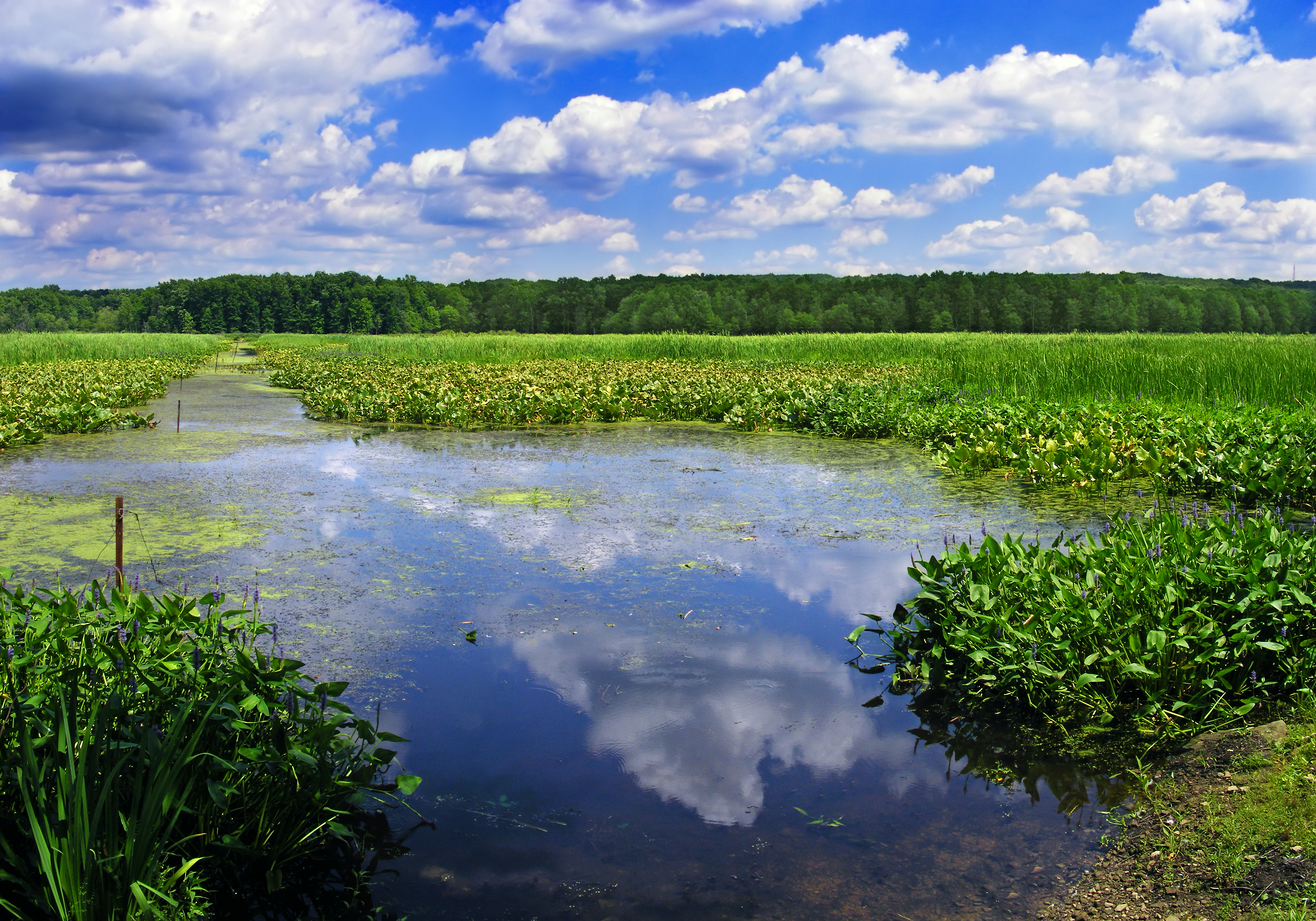 Marshland along the western side of Mercer Pike west of Cochranton in southern Union Township, Crawford County, Pennsylvania, United States.